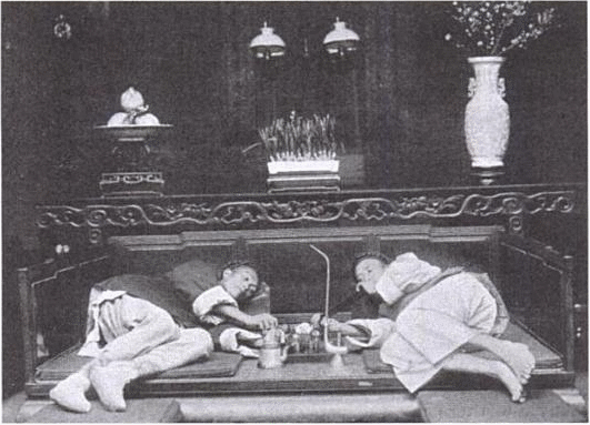 Photograph of two men reclining on couches at an opium house in China.